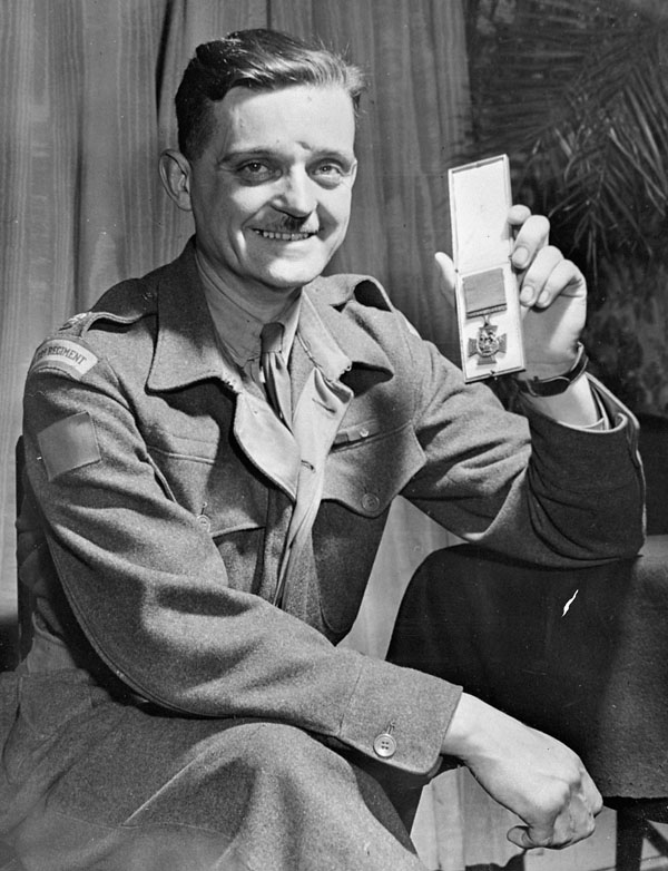 Major Paul Triquet, V.C., Royal 22e Régiment, Quebec City, Québec, Canada, 12 April 1944